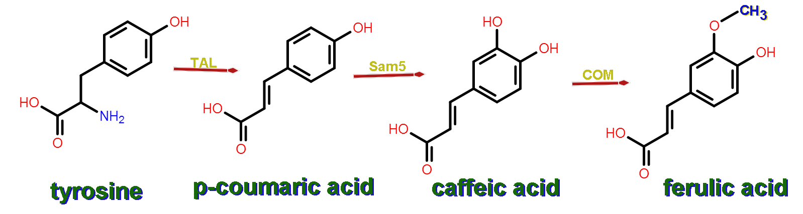 Ferulic acid synthesis from tyrosine